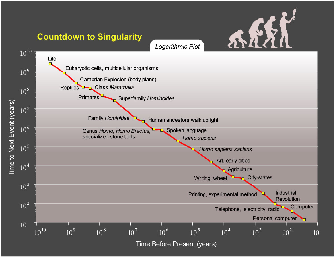 Countdown to Singularity, logarithmic scale.